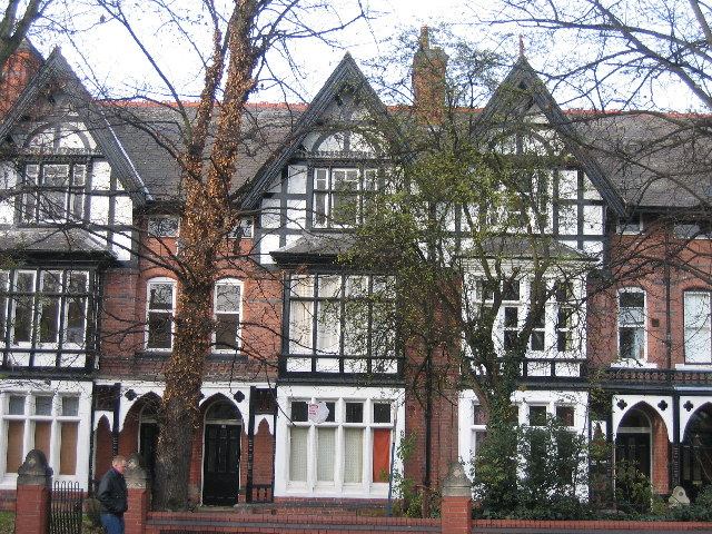 housing on Narborough Rd. taken morning 25 November 2005 looking west across Narborough Rd South near Walton Rd